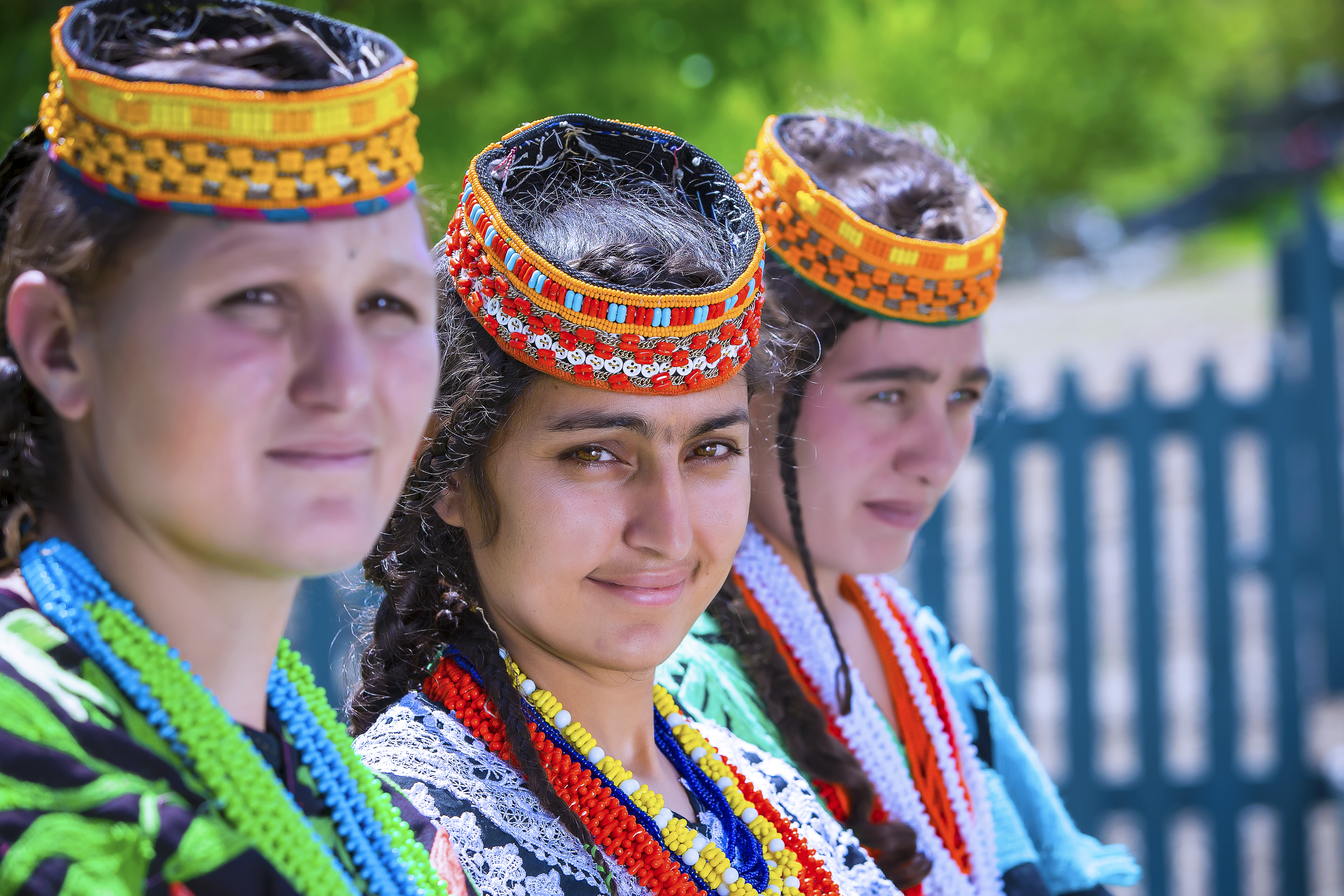 The Kalasha or Kalash, are a Dardic indigenous people residing in the Chitral District of Khyber-Pakhtunkhwa province of Pakistan. They speak the Kalasha language, from the Dardic family of the Indo-Iranian branch. They are considered unique among the peoples of Pakistan. They are also considered to be Pakistan's smallest religious community.The culture of the Kalash people is unique and differs completely from the various contemporary Islamic ethnic groups surrounding them in modern northwestern Indian subcontinent. They are polytheists and nature plays a highly significant and spiritual role in their daily life. As part of their religious tradition, sacrifices are offered and festivals held to give thanks for the abundant resources of their three valleys. Kalasha Desh (the three Kalash valleys) is made up of two distinct cultural areas, the valleys of Rumbur and Brumbret forming one, and Birir valley the other; Birir valley being the most traditional of the two. Kalash mythology and folklore has been compared to that of ancient Greece, but they are much closer to Indo-Iranian (pre-Zoroastrian Vedic) traditions. The Kalash have fascinated anthropologists due to their unique culture compared to the rest in that region.